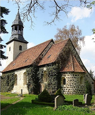 Protestant church of Möckern-Ziepel